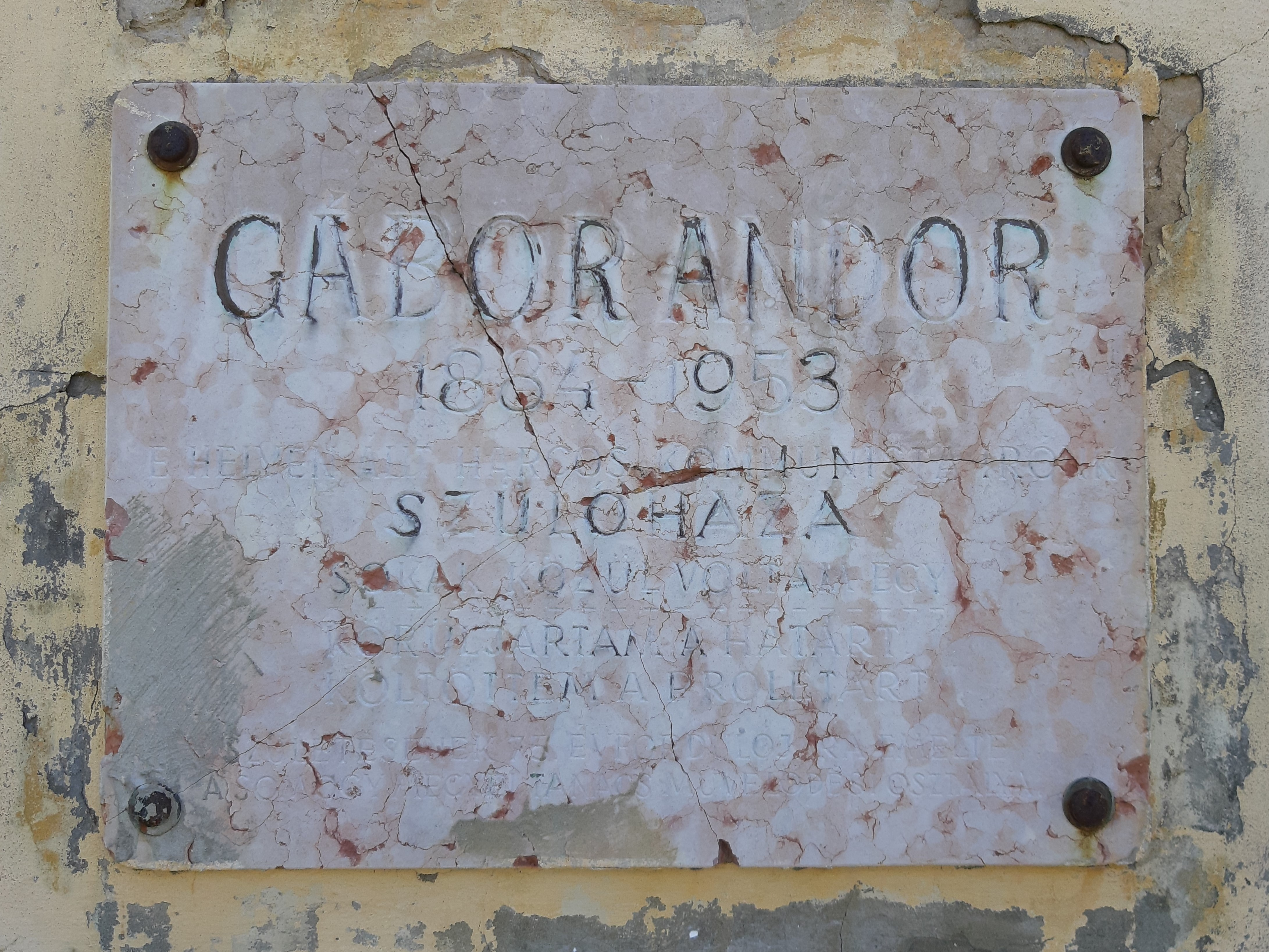 Emléktábla a Gábor Andor szülőházának helyén álló épület (7584 Rinyaújnép, Gábor Andor utca 33.) falán; felirata: „Gábor Andor 1884–1953 E helyen állt harcos kommunista írónk szülőháza Sokak közül voltam egy – – – – – – – – – – – – – – – – – – – – Körüljártam a határt Költöttem a proletárt Születésének 75. évfordulójára emelete a Somogy Megyei Tanács Művelődési Osztálya”